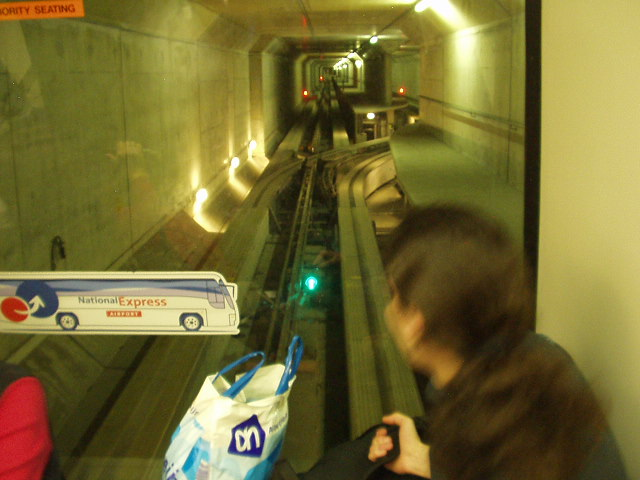 London Stansted Airport people mover system makes its way to terminals under the airfield